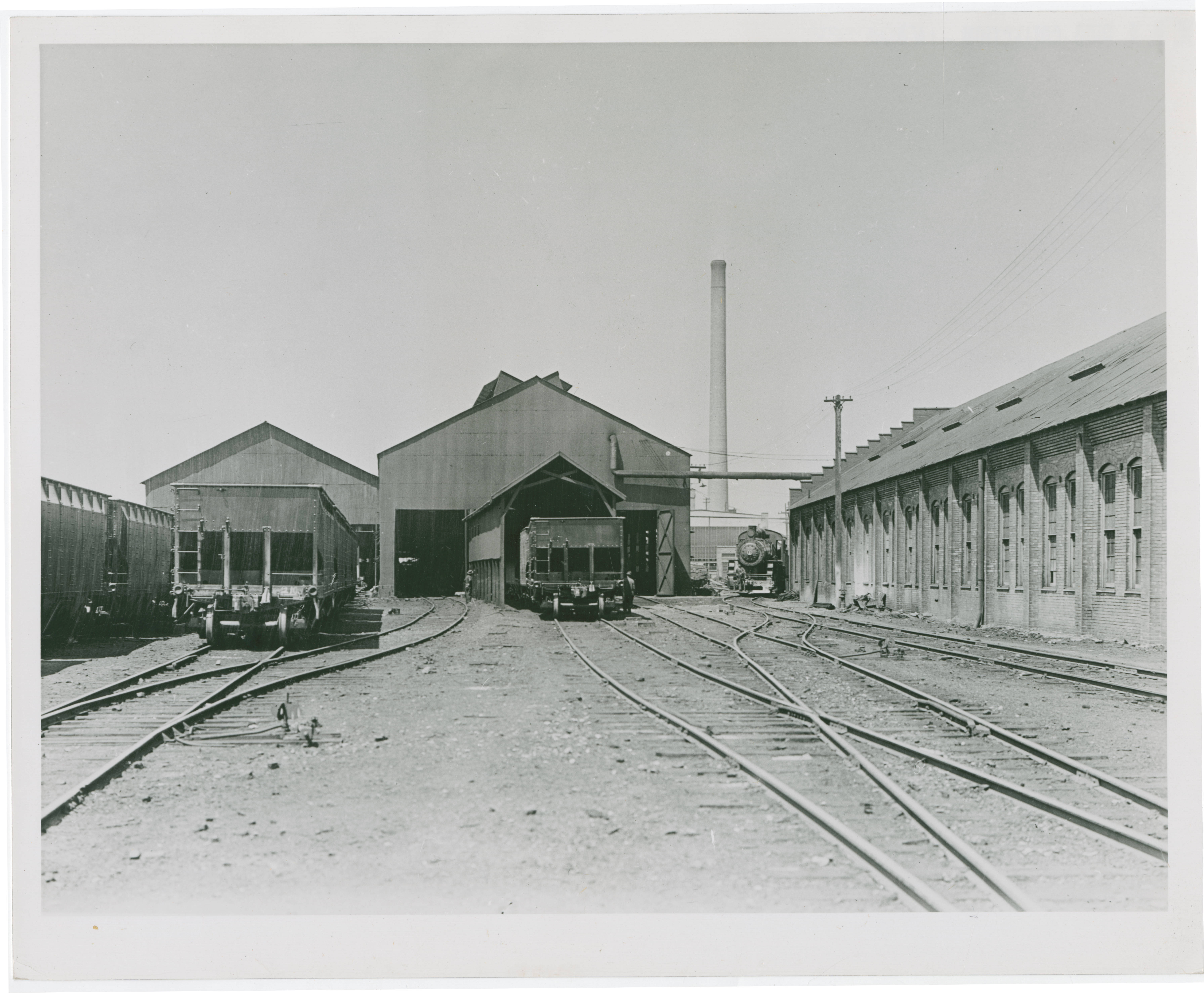 "Photograph showing the train yard at the Ralston Steel Car Company's plant in Columbus, Ohio. The reverse reads: "INDUSTRY. East end of the Ralston Steel Car Company plans where cars are run out into the yard as completed. Credit Line: The Ralston Steel Car Company." The Ralston Steel Company was founded by Joseph S. Ralston and Anton Becker in 1905, when the men bought the former plant of the Rarig Engineering Company on the east side of Columbus. The increasing power of steam locomotives drove demand for the all-steel cars they manufactured, and the company was extremely successful with their drop-bottom general purpose gondola car. These cars had bottom pans that would drop down, allowing coal to pour out instead of the traditional method using shovels and wheelbarrows. This allowed for automatic unloading of coal and hopper cars which led to more efficient production. With the exception of the Great Depression, Ralston experienced a successful run until the 1950s, when demand for freight trains dropped after World War II. The company shut its doors in 1953."